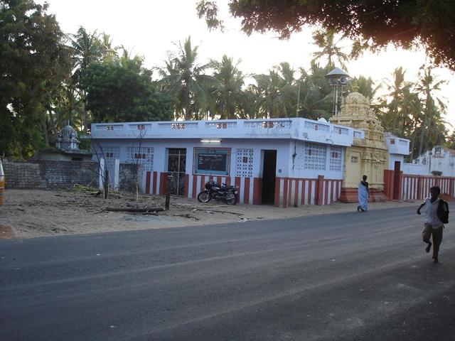 Sri Balathandayuthapani Swamy Temple